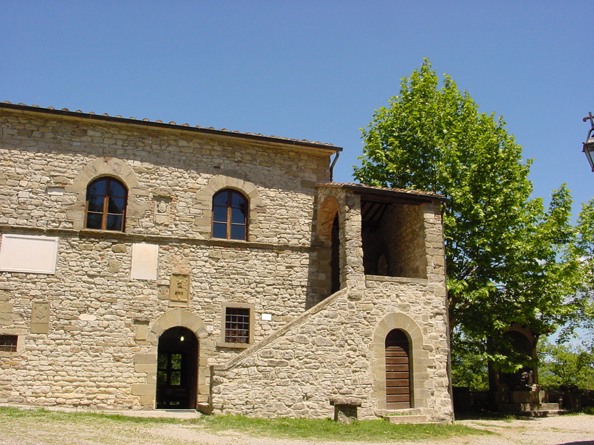 Caprese Michelangelo, birthplace of Michelangelo